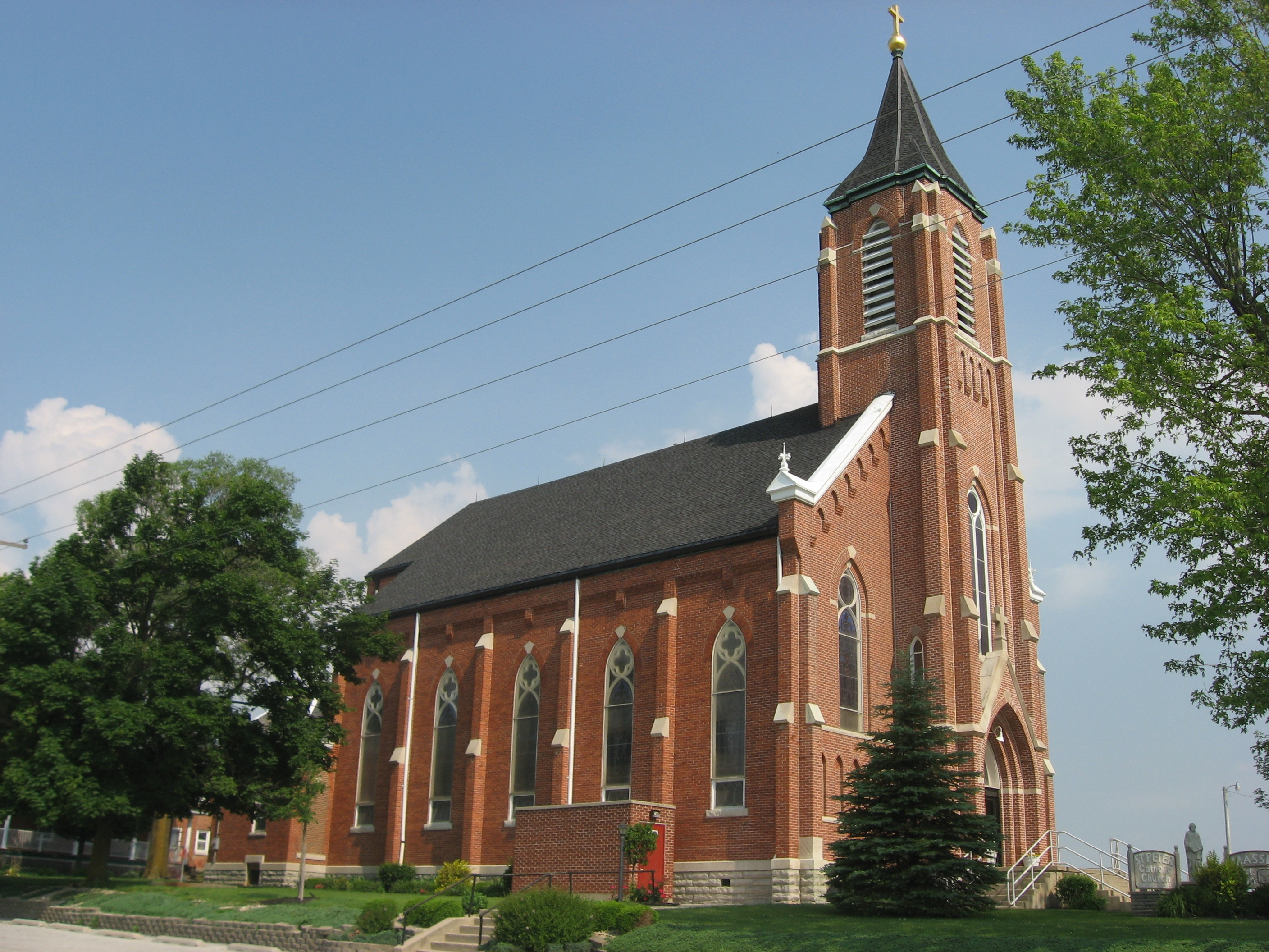 Southern side and front of St. Peter Catholic Church, located at the intersection of Philothea and St. Peter Roads in St. Peter, an unincorporated community in Recovery Township, Mercer County, Ohio, United States. Built in 1904, the church was listed on the National Register of Historic Places as a part of the Cross-Tipped Churches of Ohio Thematic Resources.